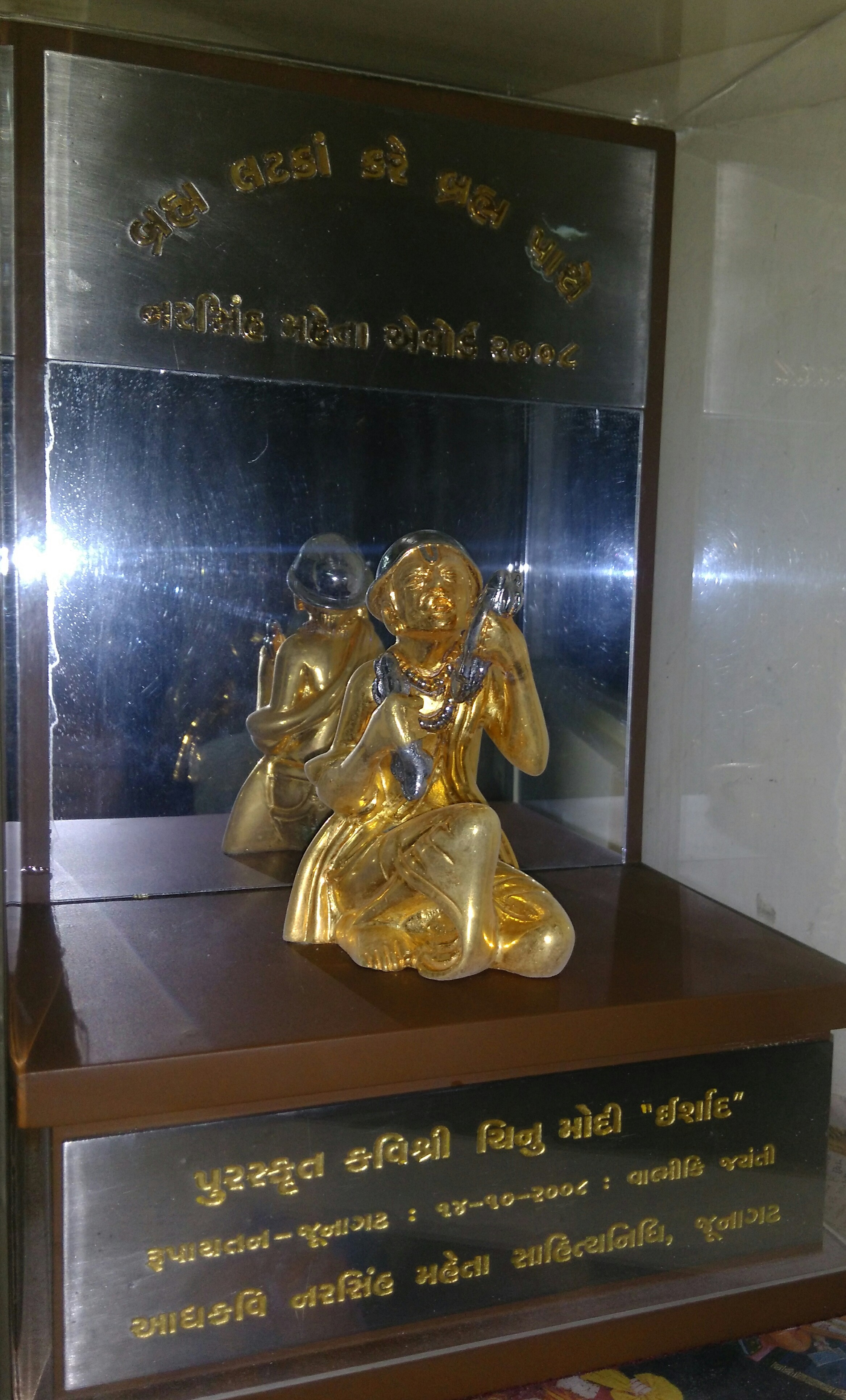 Photo of Narsinh Mehta Award